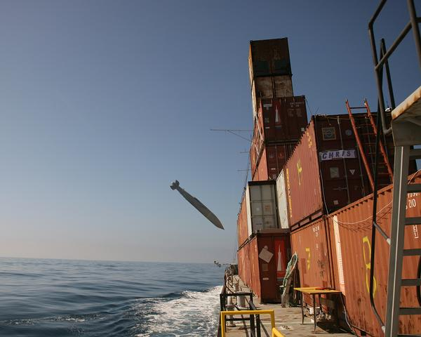 AGM-154C-1 JSOW hits naval target